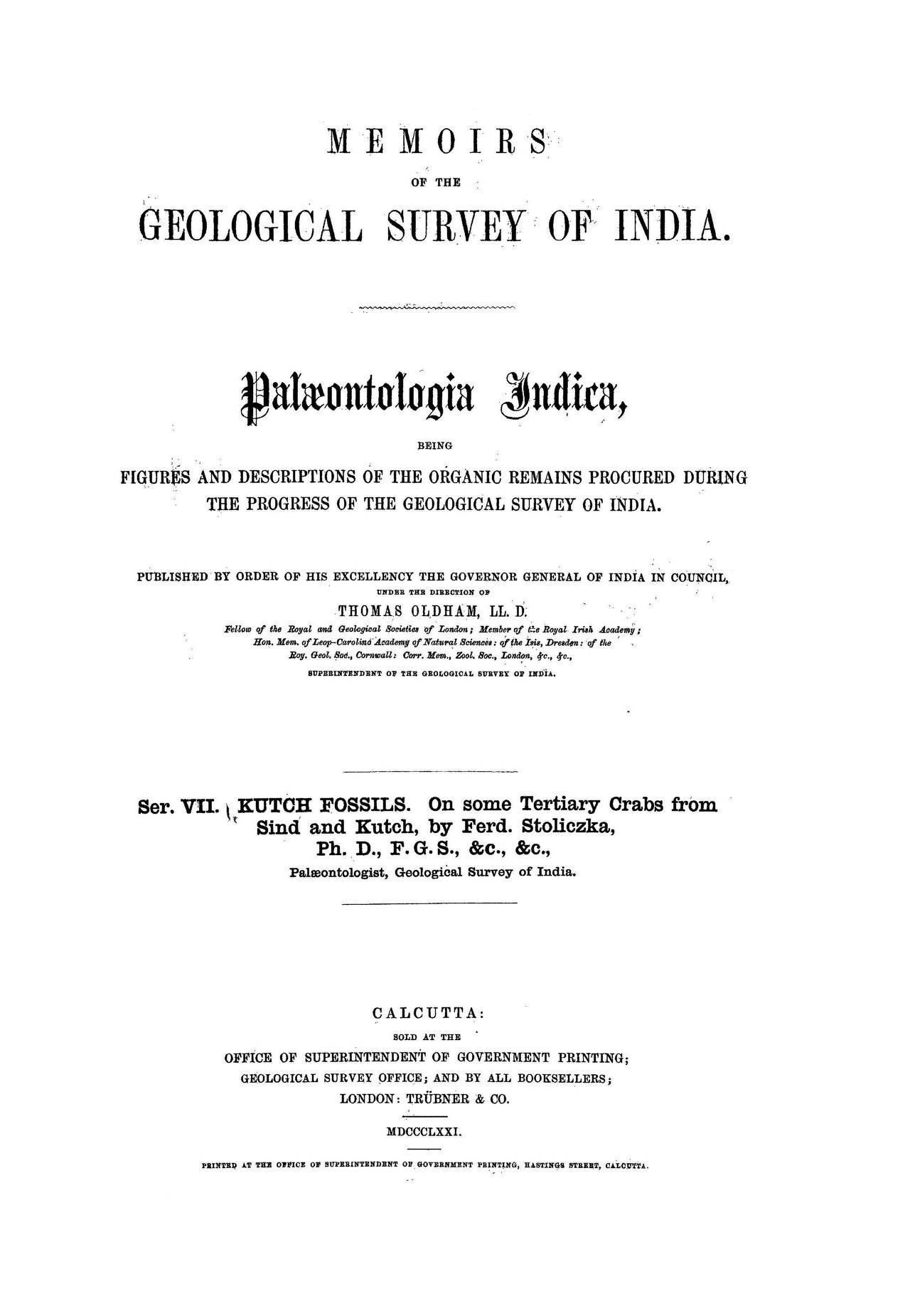 Cover of Paleontologia Indica volume 1